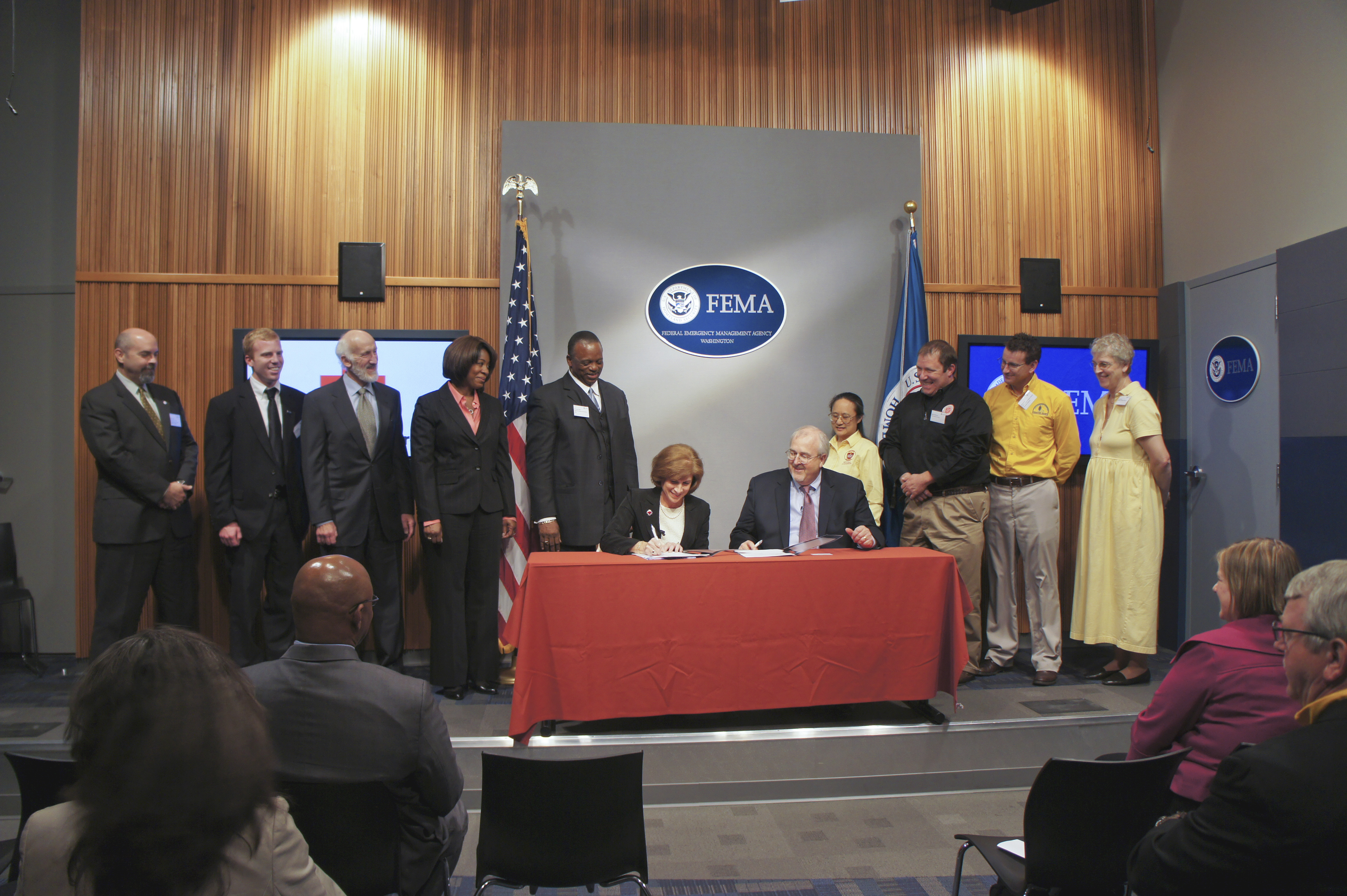 Washington, DC, October 22, 2010 -- FEMA Administrator W. Craig Fugate with American Red Cross President and CEO Gail J. McGovern after a Memorandum of Agreement signing ceremony at FEMA headquarters. The agreement was an important step for those who may need shelter, food, first aid and other types of mass care when a disaster strikes. On either side behind them are (l - r) Bob Leipold of National Voluntary Organizations Active in Disaster (National VOAD), Zack Goodwin of Hope Worldwide, John Eidleman of Legal Services Corporation, Delores Scott of National Disability Rights Network, Dr. Larry West of National Baptist Convention USA, Charlene Sargent of Adventist Community Services, Mike Patterson of The Salvation Army, Bruce Poss of North American Mission Board (Southern Baptists) and Judy Bezon of Children's Disaster Services. FEMA/Bill Koplitz